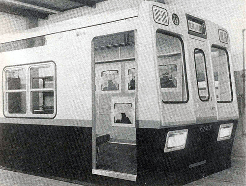 A prototype of the Fiat-Materfer Buenos Aires Underground rolling stock presented in 1988. The later design used a single - rather than split - front window.